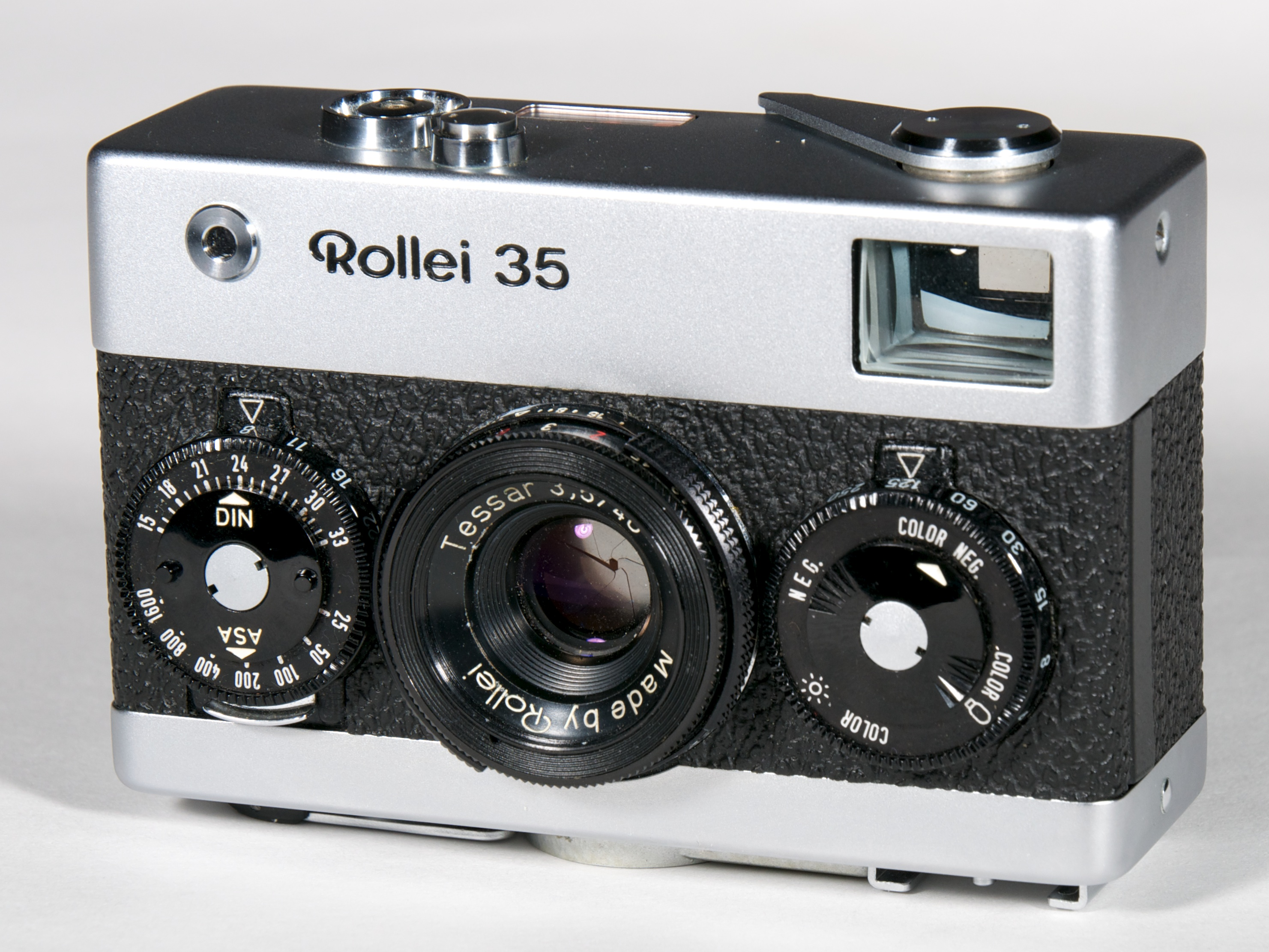 Latest addition to my camera collection. This model with the 40mm F3.5 Tessar lens was made in Singapore between 1971 and 1974. The Rollei 35 was unique in many ways, not the least was the fact that the flash shoe was on the bottom!